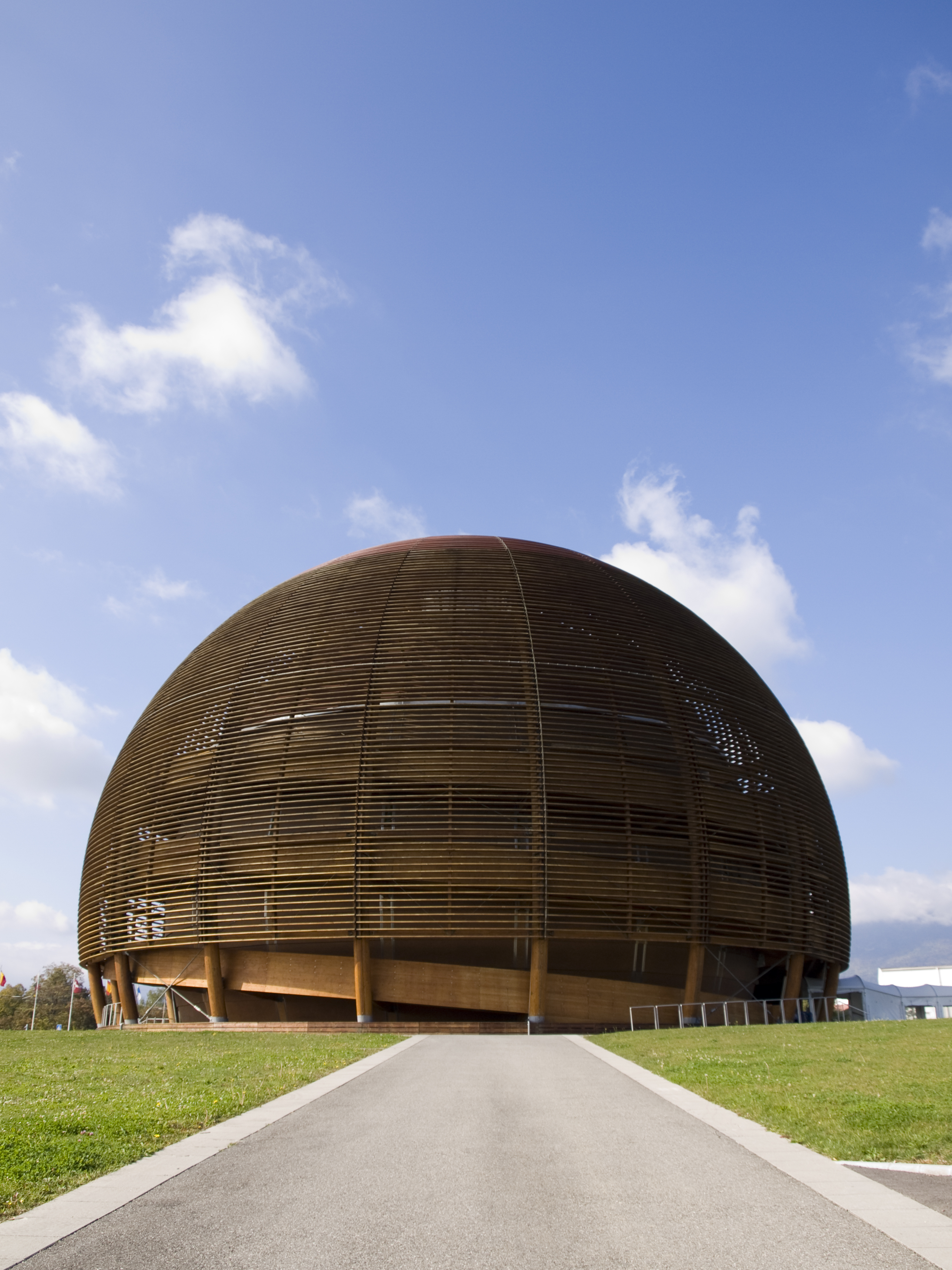 The Globe of Science and Innovation at the entrance:The Globe of Science and Innovation at the entrance of CERN